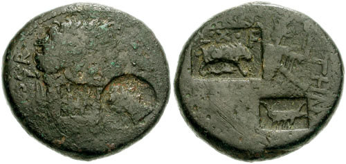 SAMARIA, Sebaste. Domitianus. As Caesar, 69-81 CE. Æ 24mm (13.09 gm, 1h). Dated CY 109 (81/2[?] CE). Countermarked by Legio X Fretensis. [IMP DOMITIANVS CAE]SAR, laureate head right; c/m: imperial bust right within incuse; LXF within incuse [CEBA]CT-HN[ωN], Tyche standing left, folding globe and spear; [LQP] in upper left field; c/ms: boar standing right; LXF above; dolphin beneath; all within incuse; galley right within incuse. For coin type: Cf. RPC I 2226; for c/m: Howgego 119, 291, 410, and 733i. Coin Fair; c/ms Fine-VF, black patina. From the George Fisher Collection